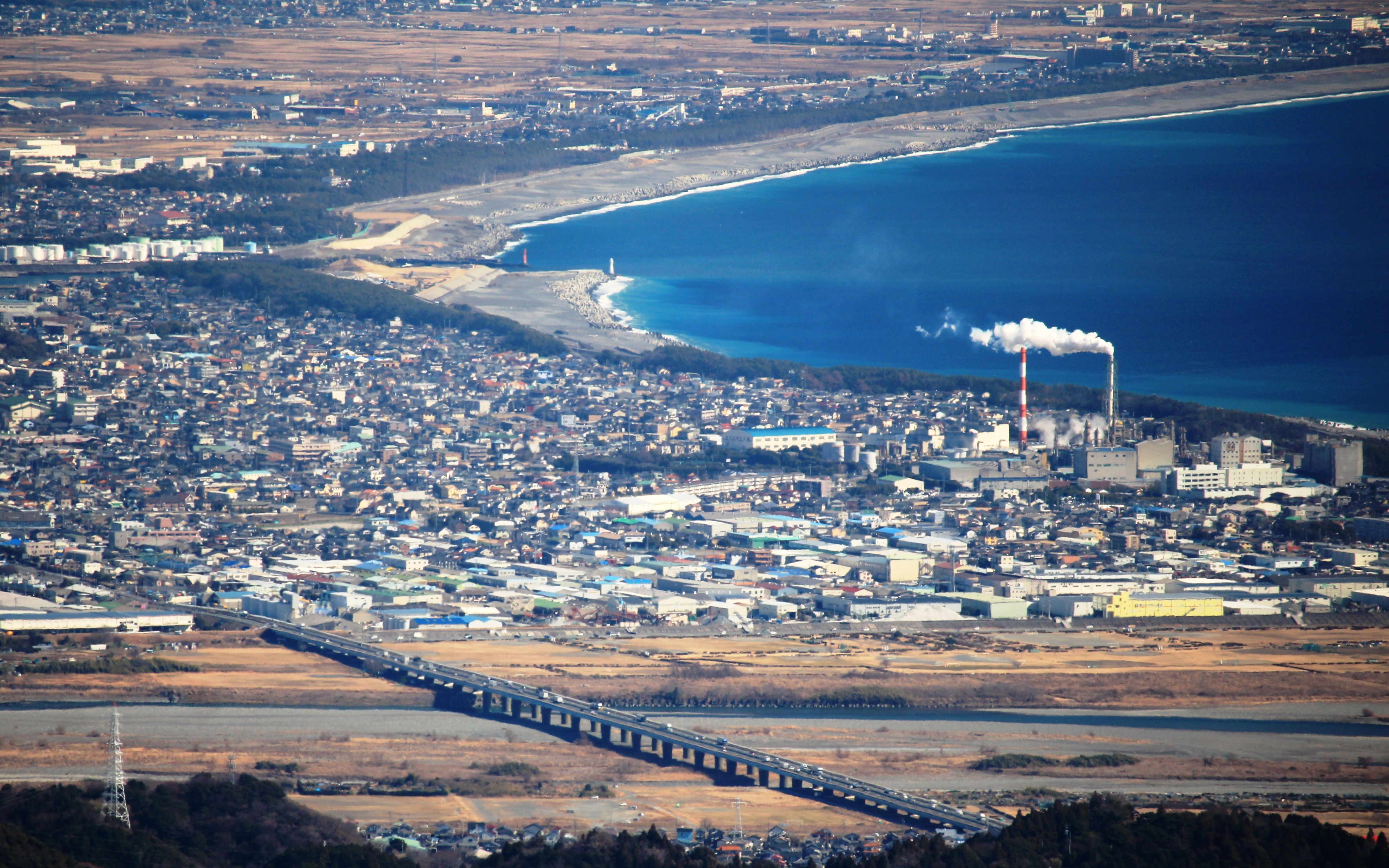 Shinfujigawa Bridge of Route 1 over Fuji River, Senbonmatsubara (in Fuji city) and Suruga Bay seen from Mount Hamaishi in Shizuoka prefecture, Japan.